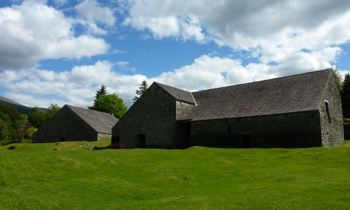 Bonawe Iron Furnace, Scotland